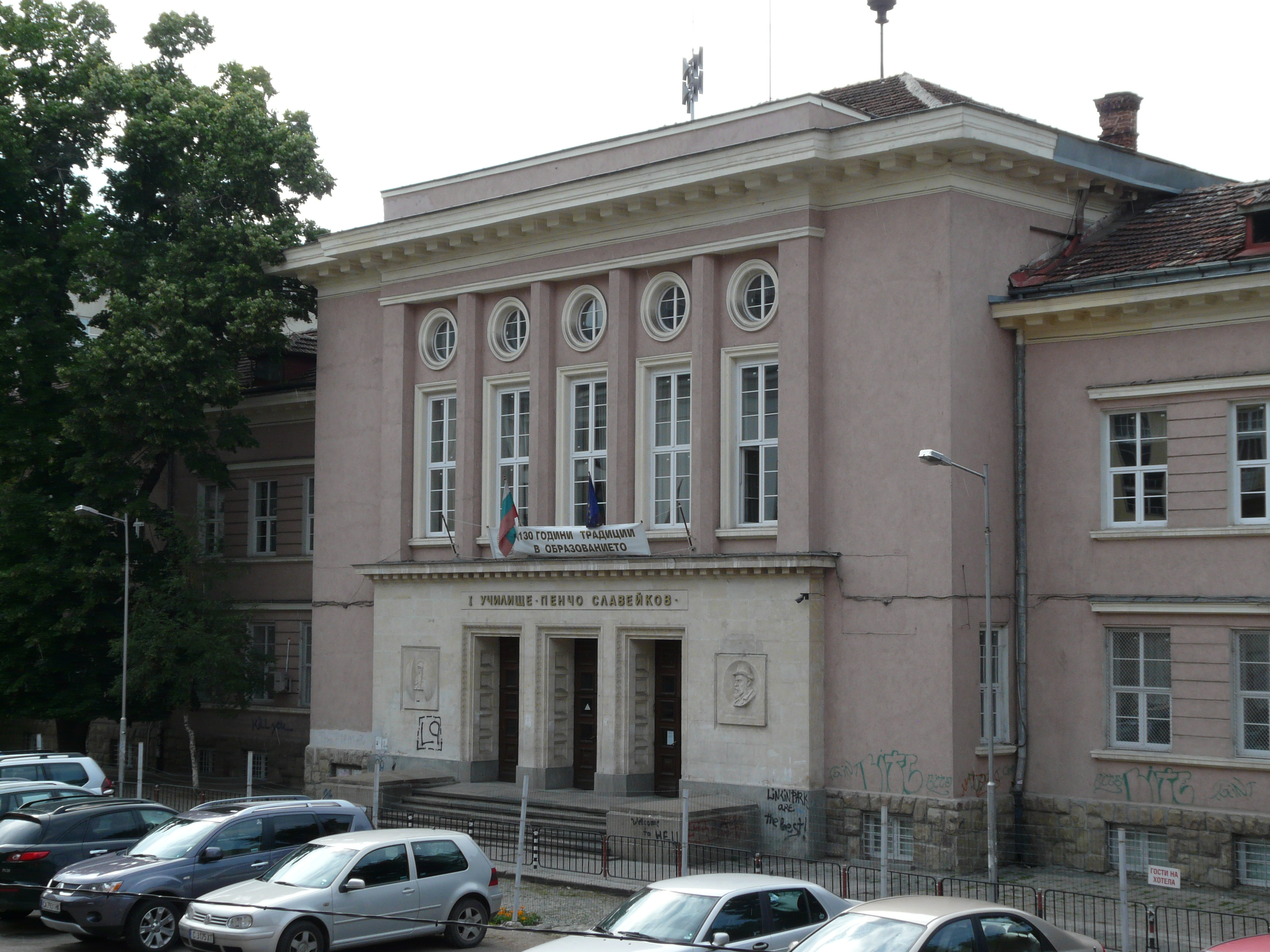 1st High School - Sofia